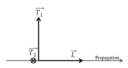 An illustration of wave polarization modes.